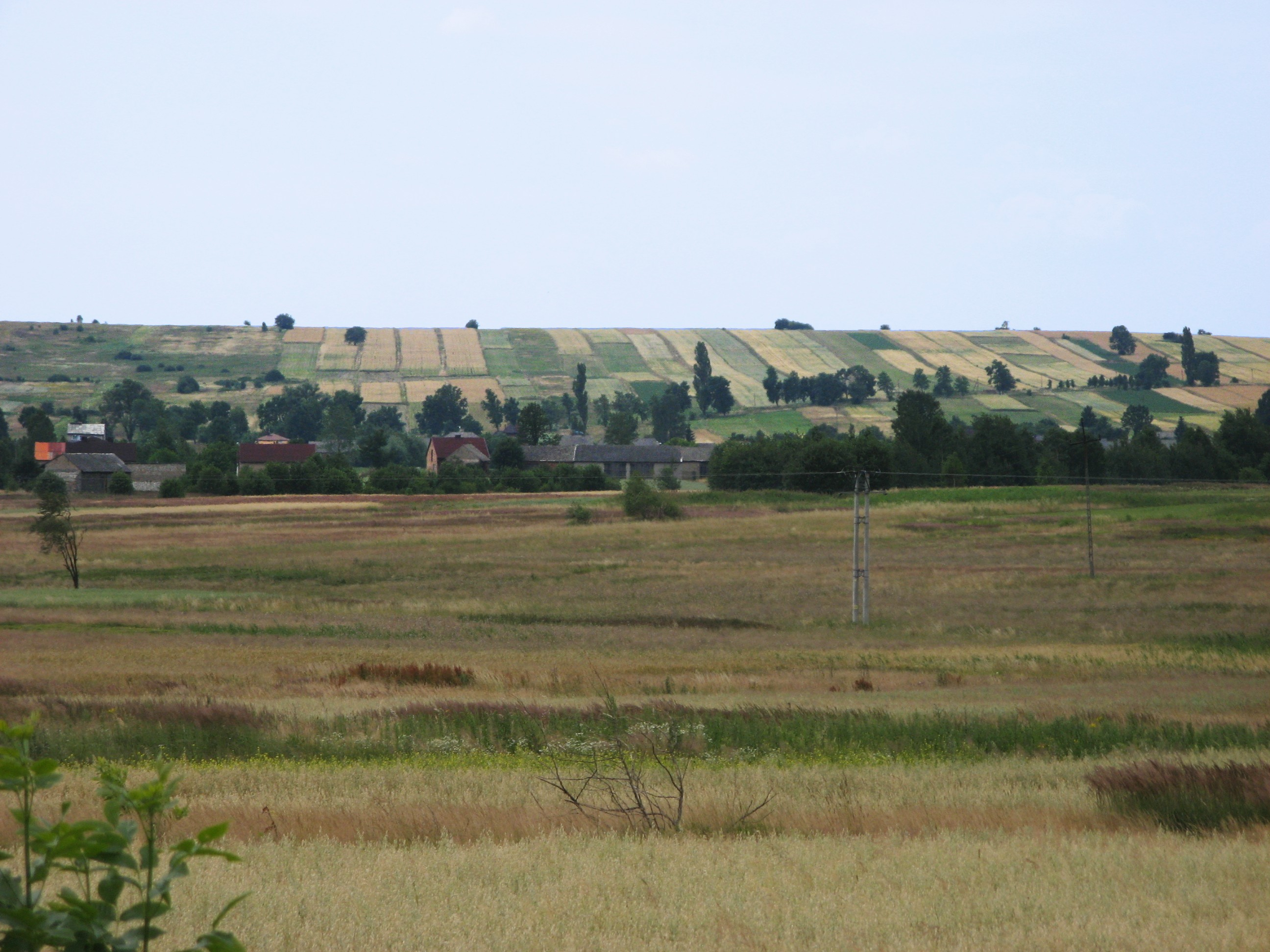 Fields in Poland